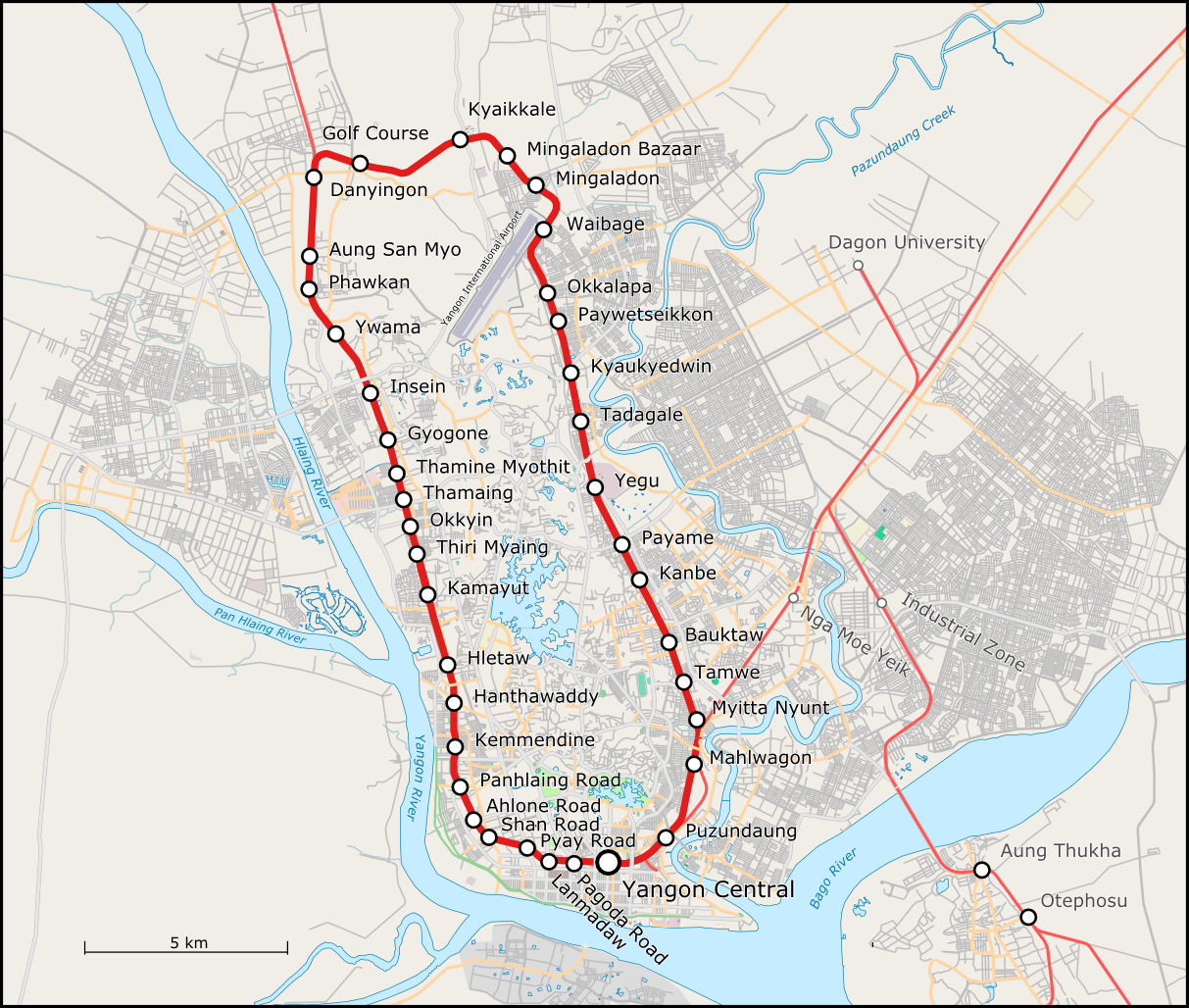 Map of the Yangon Circular Railway in Yangon This map may be incomplete, and may contain errors. Don't rely solely on it for navigation.